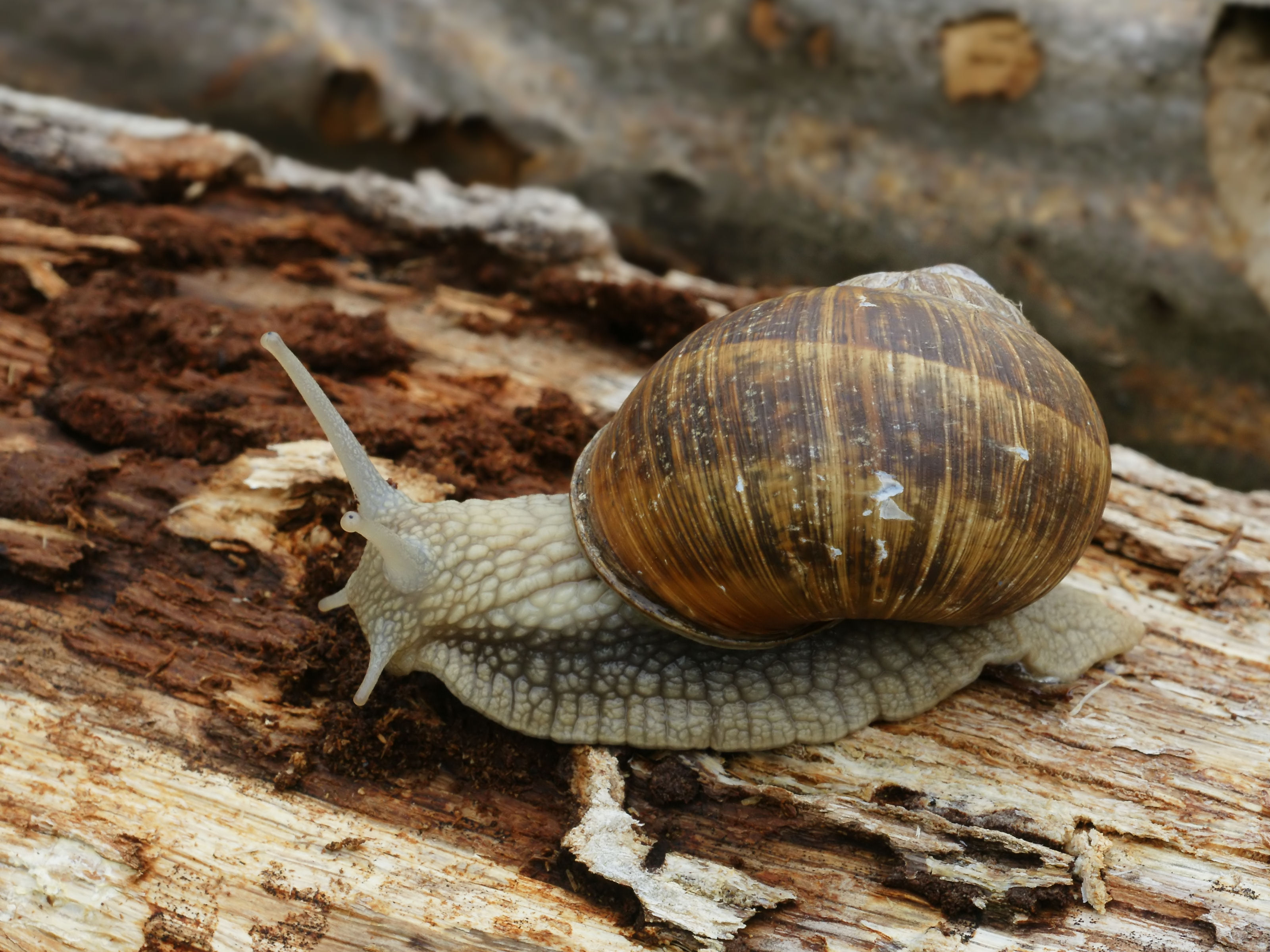 Roman snail near Dourbes, Belgium.Diameter: ~40 mm.